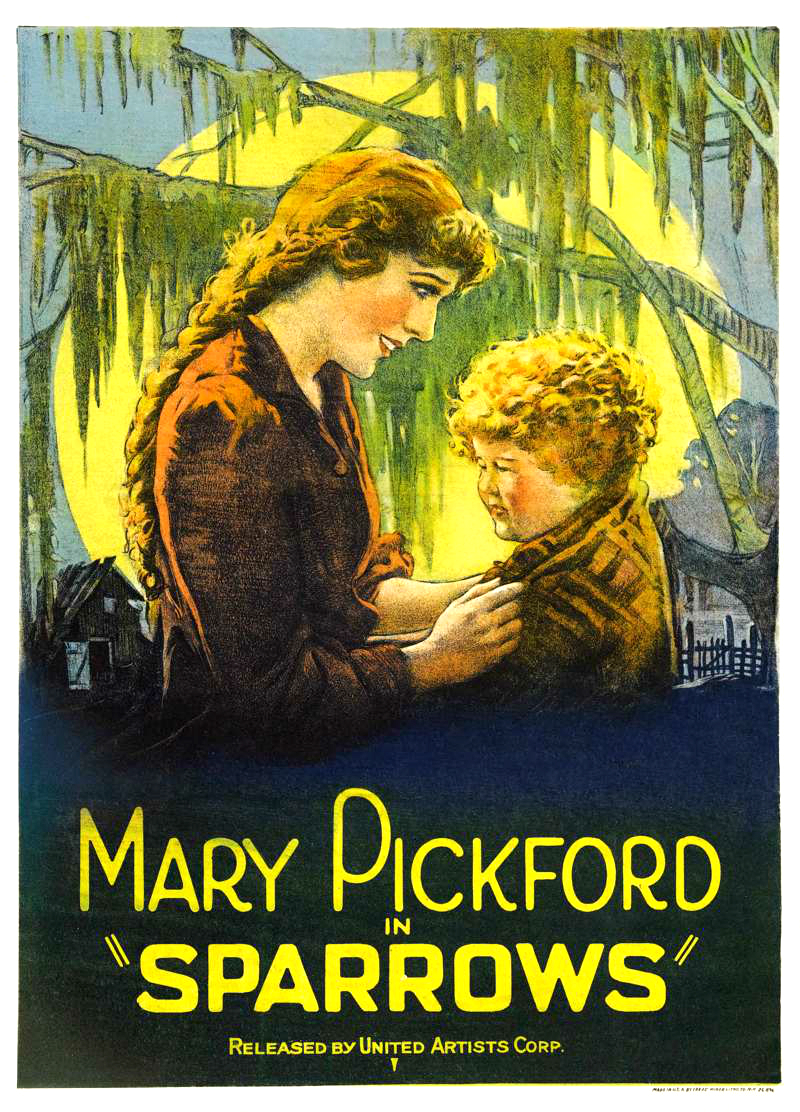 Poster for the 1926 film Sparrows. There are no copyright marks as can be seen at the link. At bottom right is Made in USA by Krauss Mfg. Co., NY.